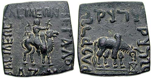 Coin of the Indian-Scythian king Azes I